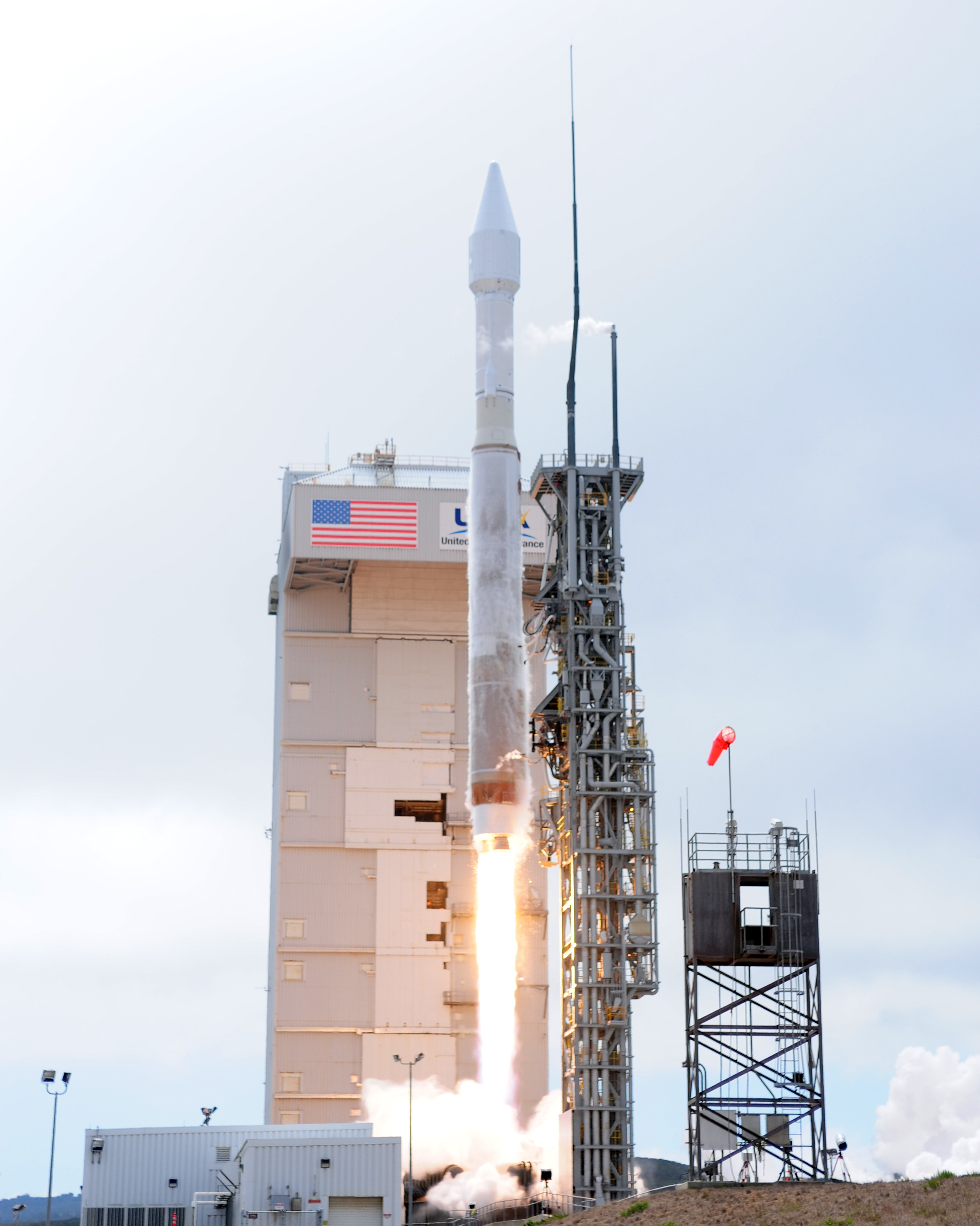 A United Launch Alliance Atlas V rocket carrying a DigitalGlobe WorldView-3 satellite successfully launches from Space Launch Complex-3 at Vandenberg Air Force Base, Aug. 13th, 2014, at 11:30 a.m. PDT.